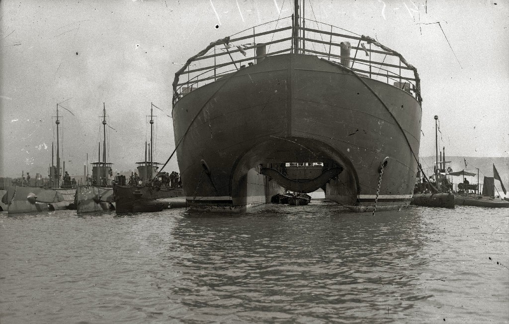 Spanish Navy submarine tender Kanguro next to submarines in Pasaia (1922)